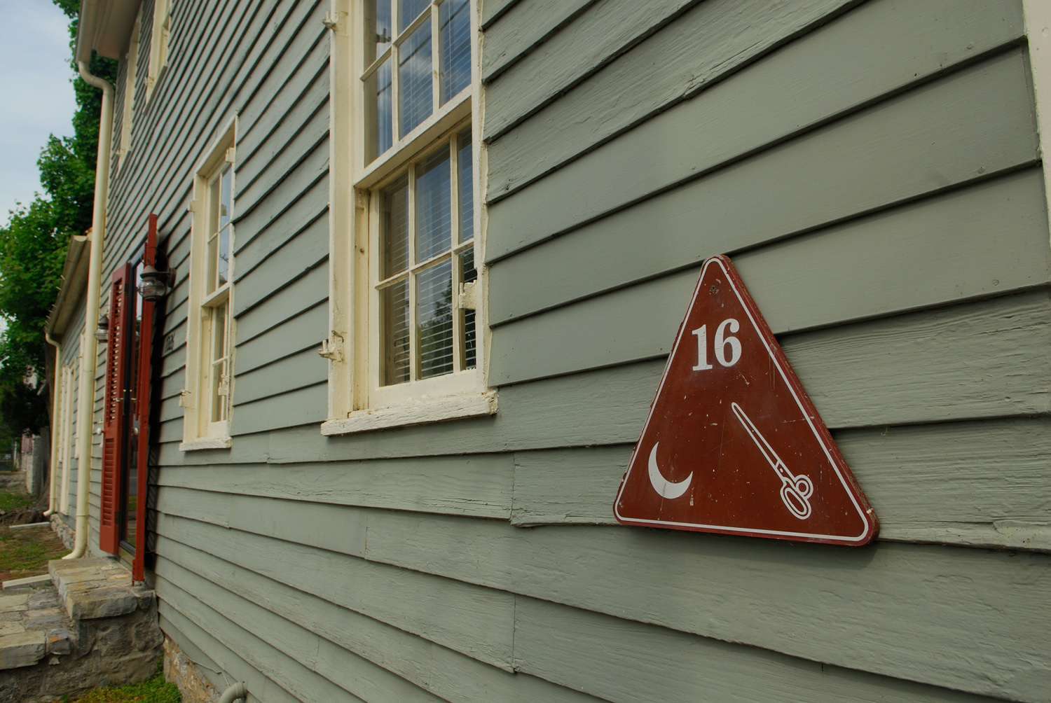 This half moon crescent and clippers plaque is repeated on several structures around the historic Civil War community of Middleway, West Virginia.